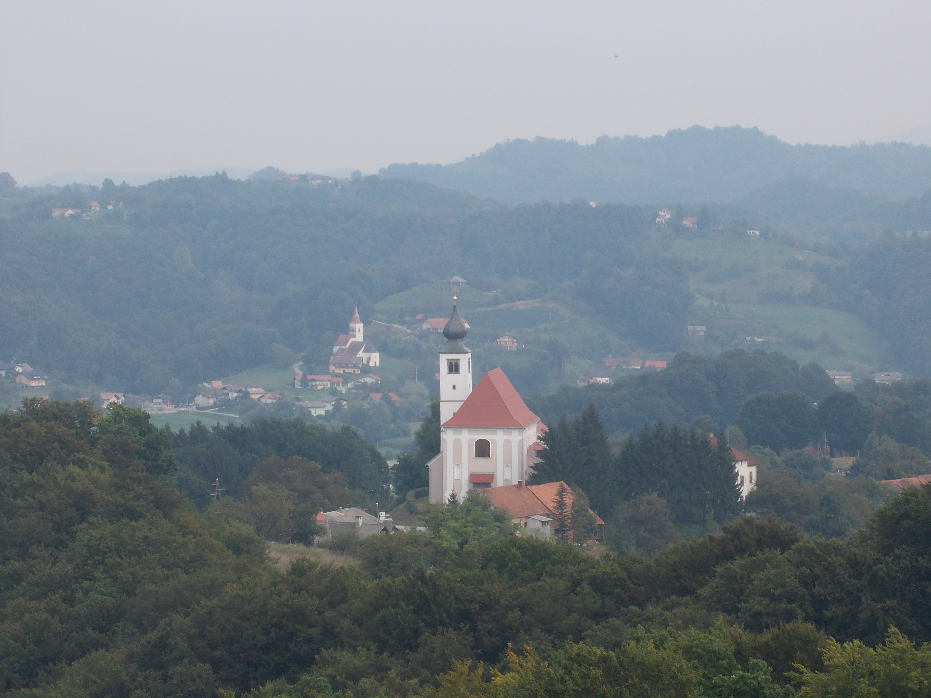 Holy Trinity Parish Church (Gorca)